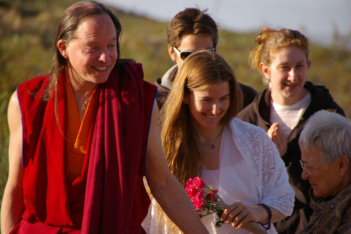 Allegra greeting Geshe Michael and Lama Christie McNally. Allegra greeting Geshe Michael and Lama Christie McNally.